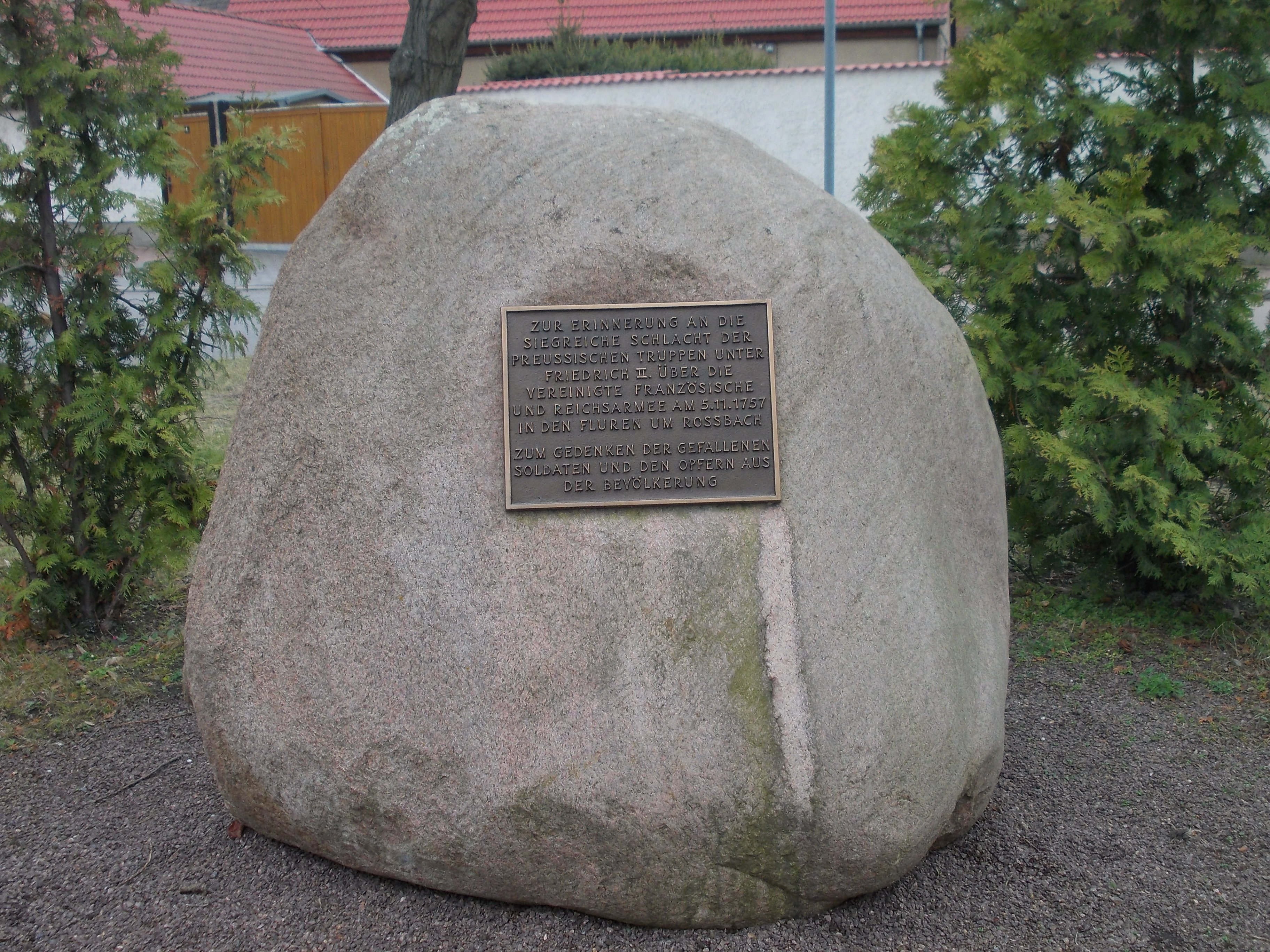 Memorial to the Battle of Rossbach in Rossbach (Braunsbedra, district: Saalekreis, Saxony-Anhalt)